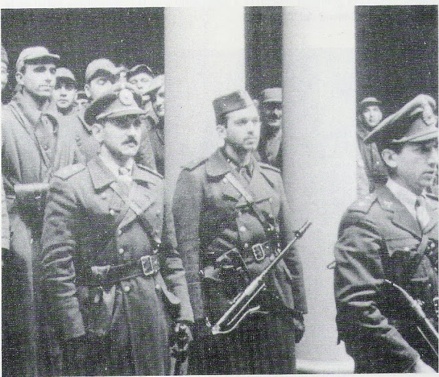 Efectivos del Regimiento de Granaderos a Caballo que tomaron parte en la defensa de la Casa de Gobierno (Isidoro Ruiz Moreno, La Revolución del 55)